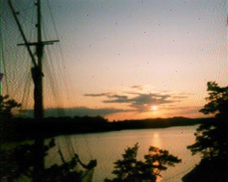 Sunset image produced by user Mysid's sample SSTV audiofile from 1997